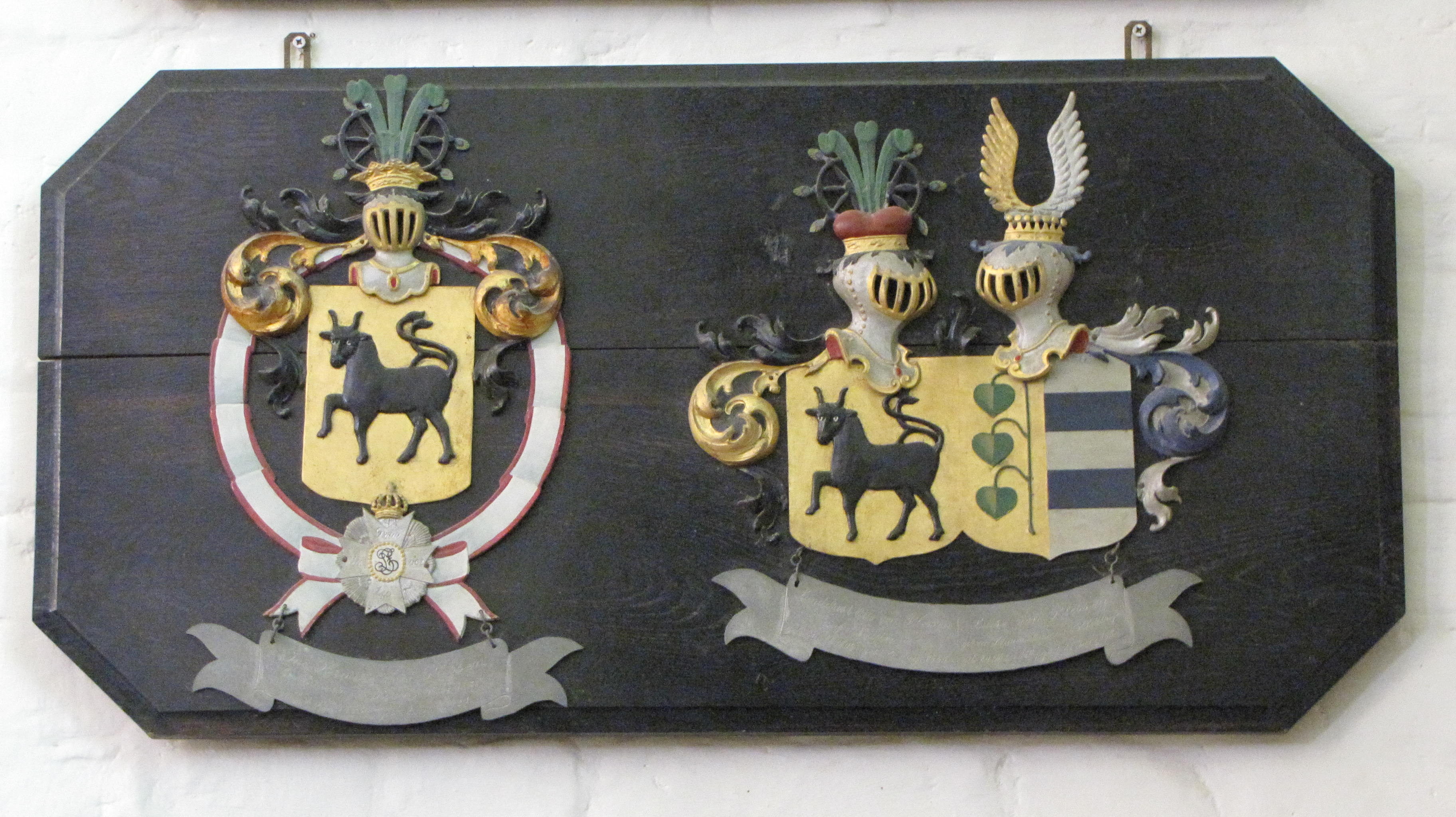 Ribnitz, Klosterkirche, Nonnenchor